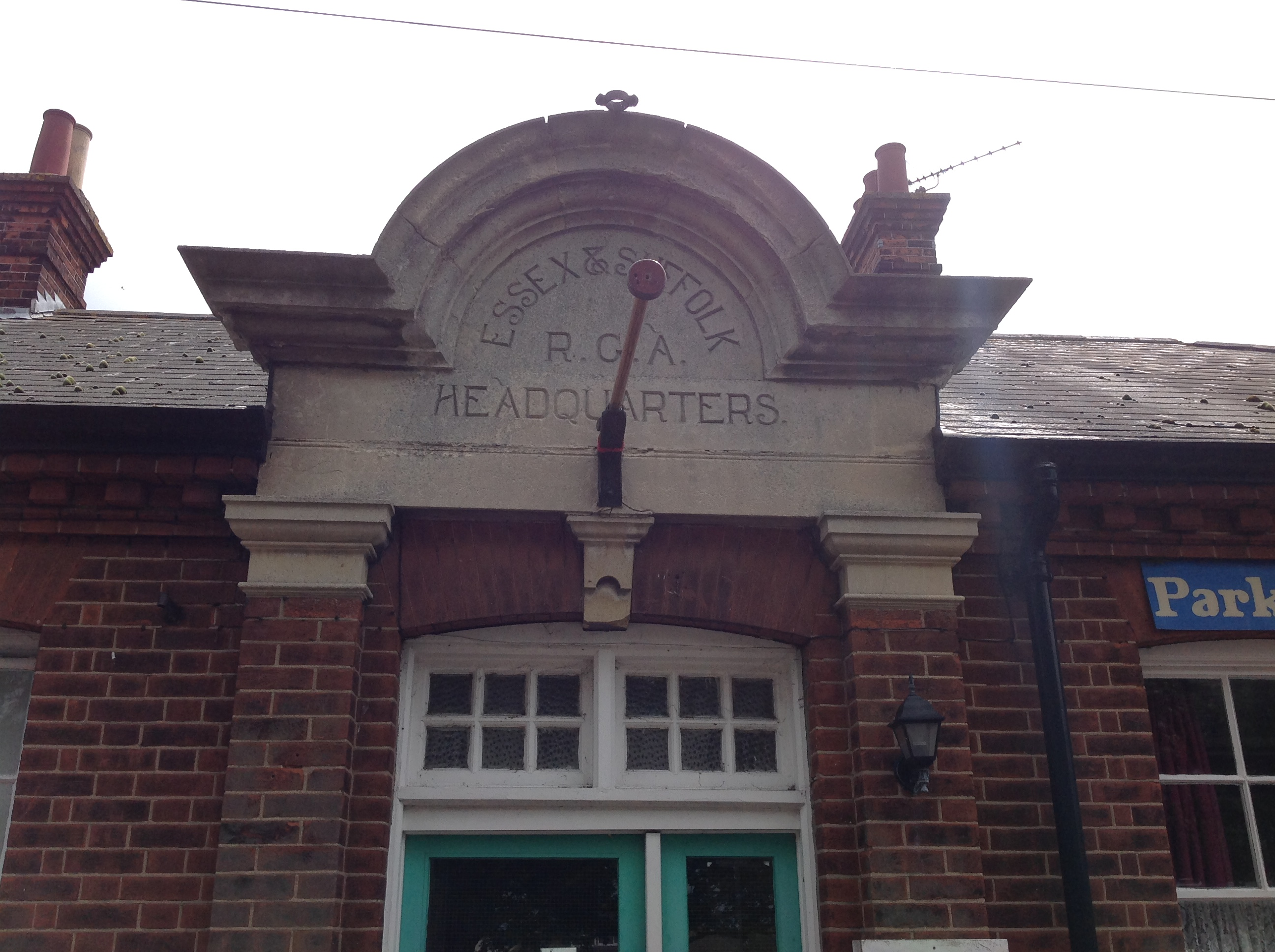 Headquarters of the Essex and Suffolk Royal Garrison Artillery, Main Road, Harwich, Essex. Originally built in 1911. Now a community centre.